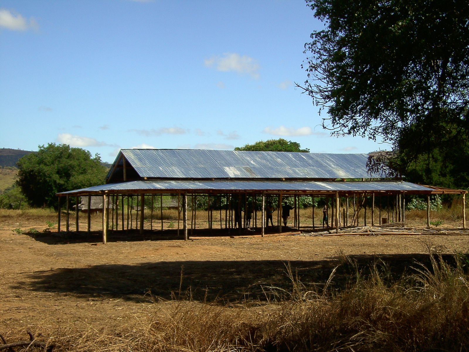 The village school at Tamotamo, district of Ankazoabo, Madagascar, under construction